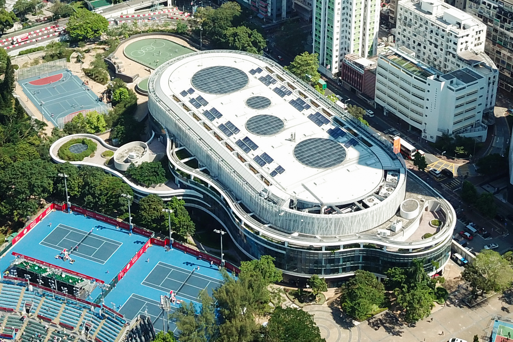 Victoria Park Swimming Pool Exterior view